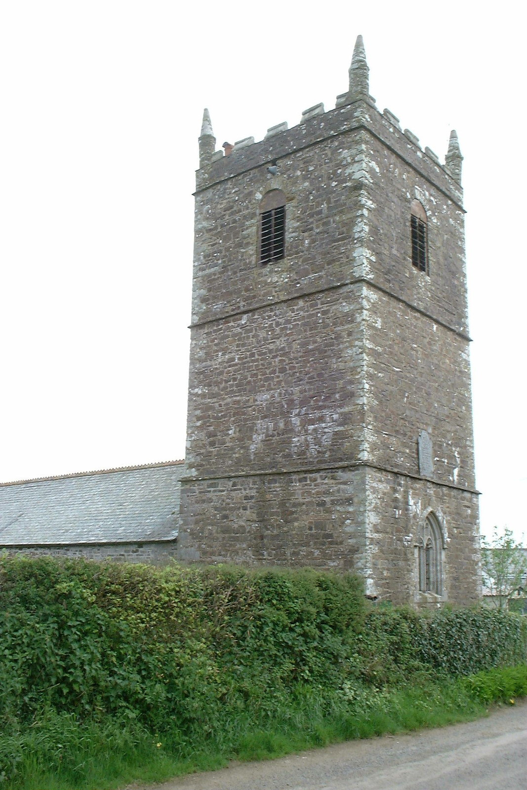 Holy Name church, Boyton, Cornwall